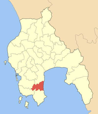 Locator map of Aipeias municipality (Δήμος Αετού) at Messinia perfecture, Greece.